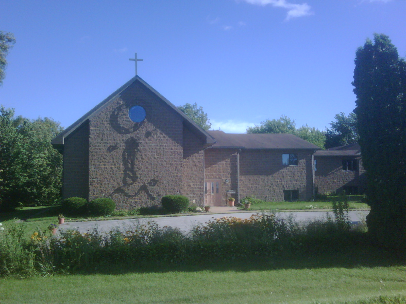 Photo of the Discalced Carmelite Monastery in Eldridge, Iowa